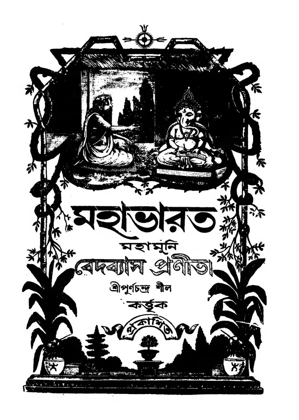 কাশীদাসী মহাভারত